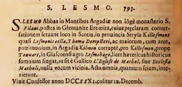 Latin desrciption of St Lesmo by Thomas Dempster.